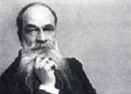 Ferrein Vladimir Karlovich